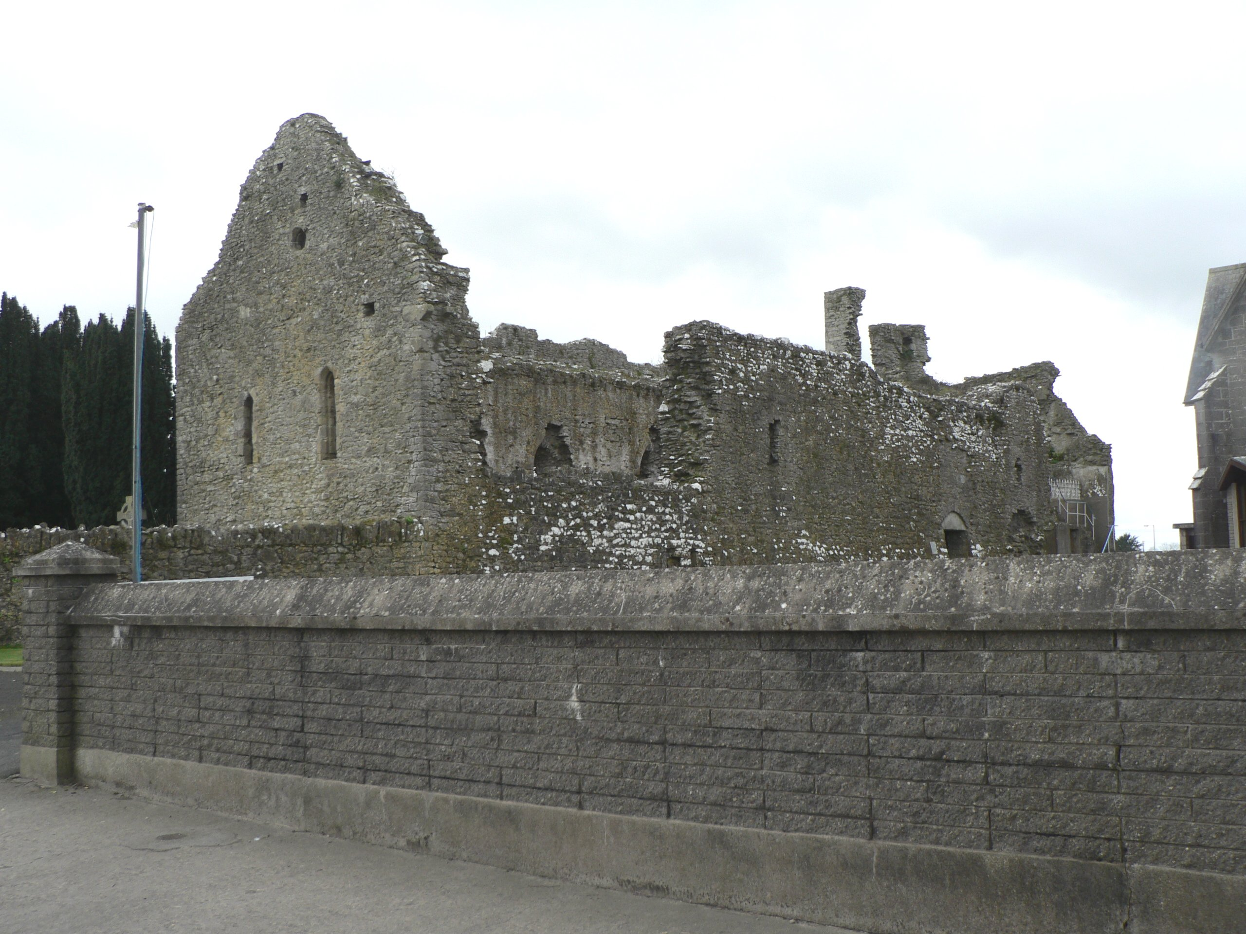 This is a photo of the ruins of the old church in Hospital, Co. Limerick